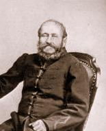 old photograph